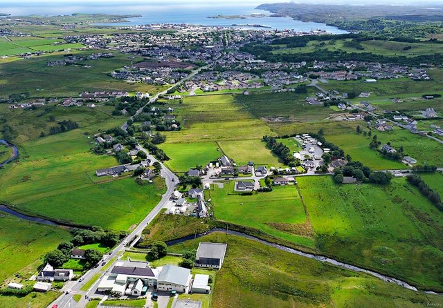 The Road to Stornoway A view from Laxdale School to Stornoway